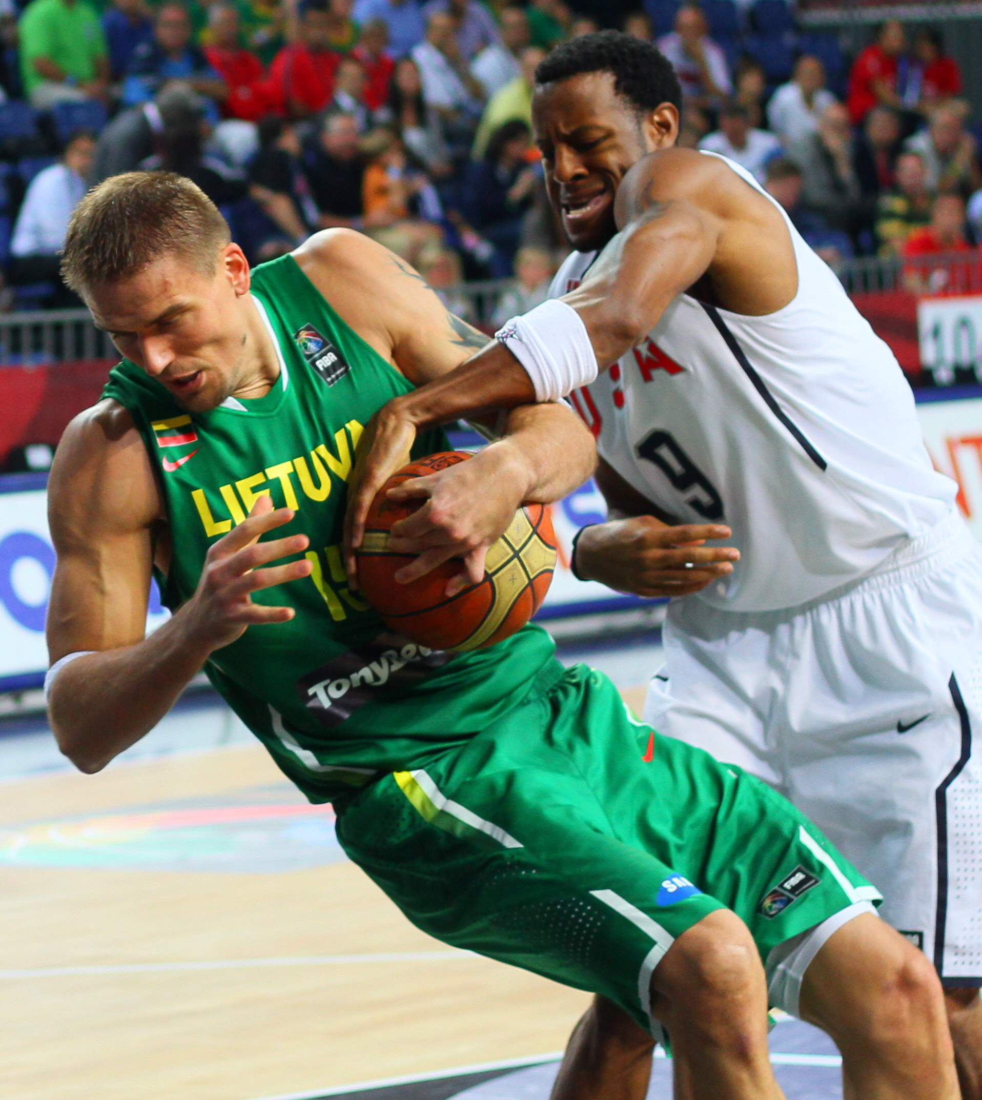 Robertas Javtokas tries to attack the basket while Andre Iguodala tries to stop him.